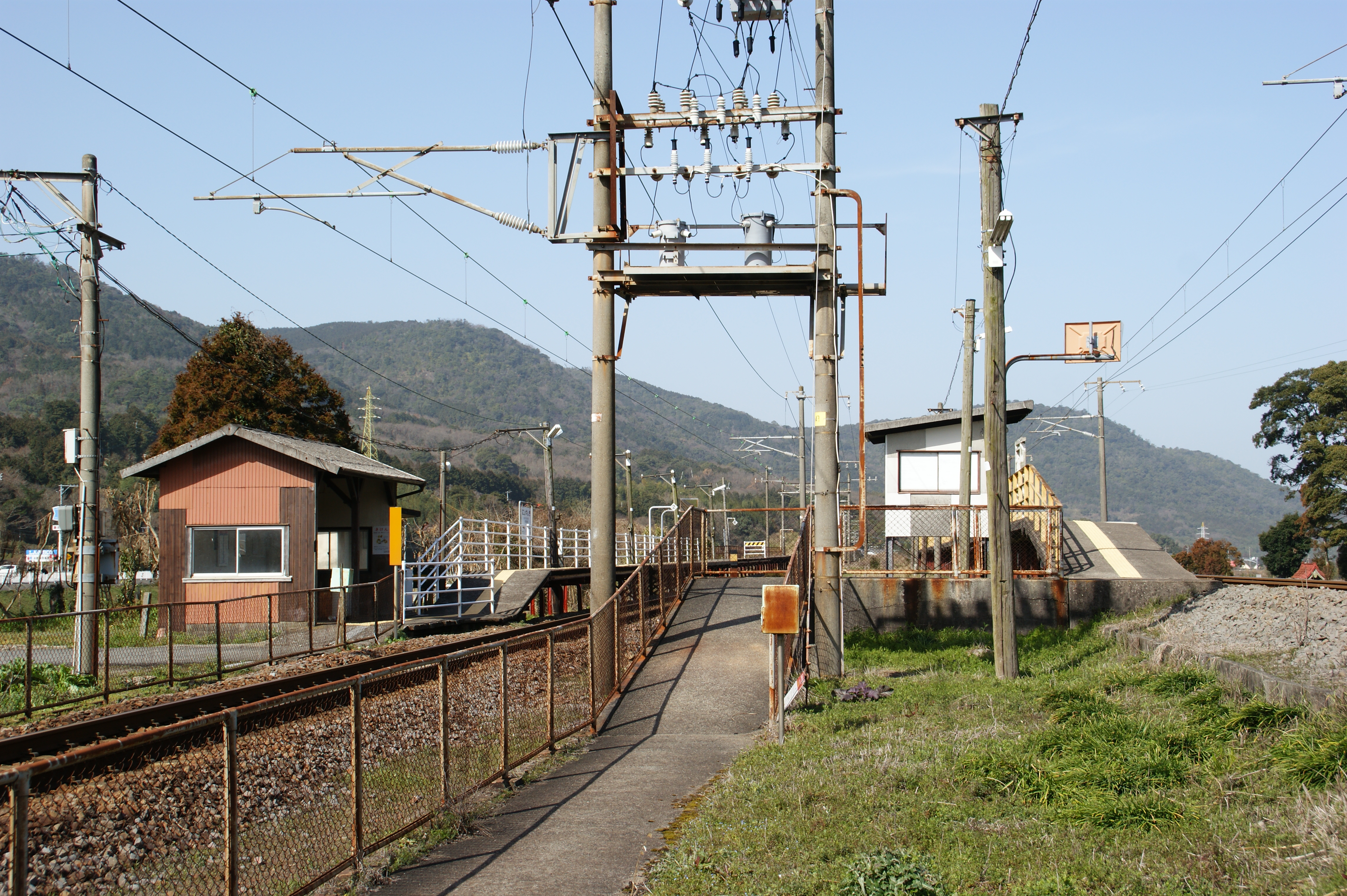 Kyushu Railway, Nishiyashiki Station in Usa City, Oita Prefecture, Japan